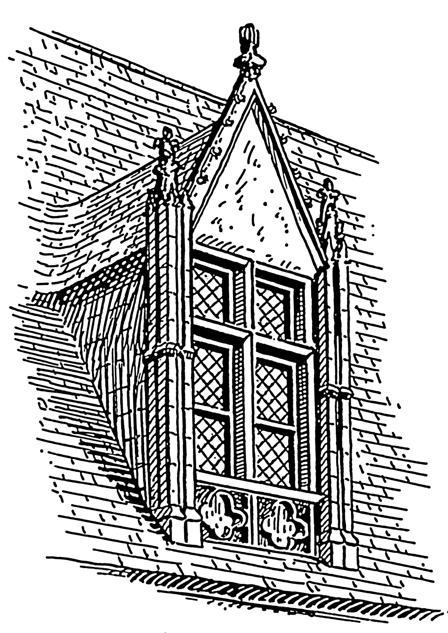 Line art drawing of a dormer window. Gable dormer.